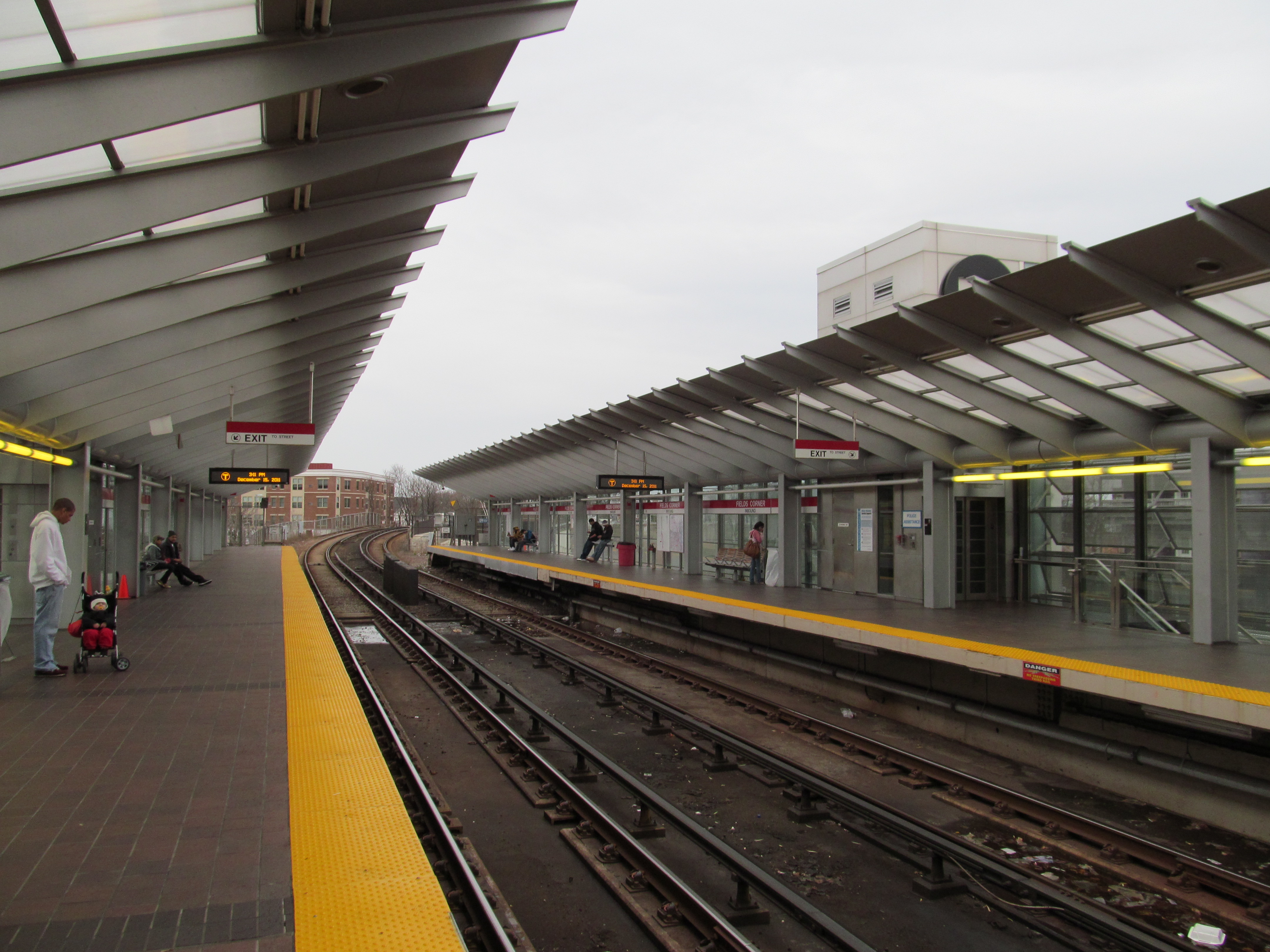 Station platforms at Fields Corner, looking inbound